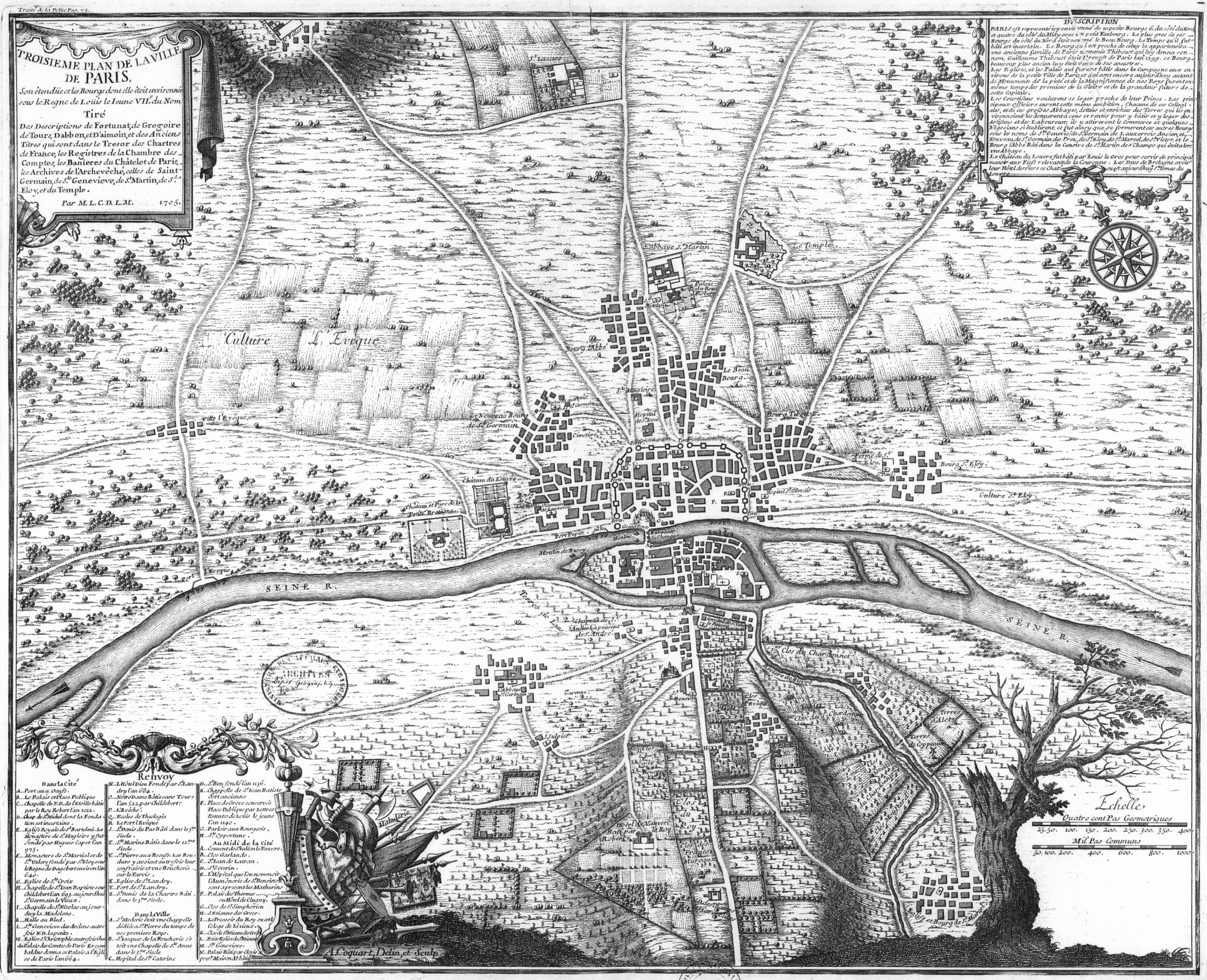 Plan of Paris about 1180, the third of eight chronological maps of Paris from Traité de la police